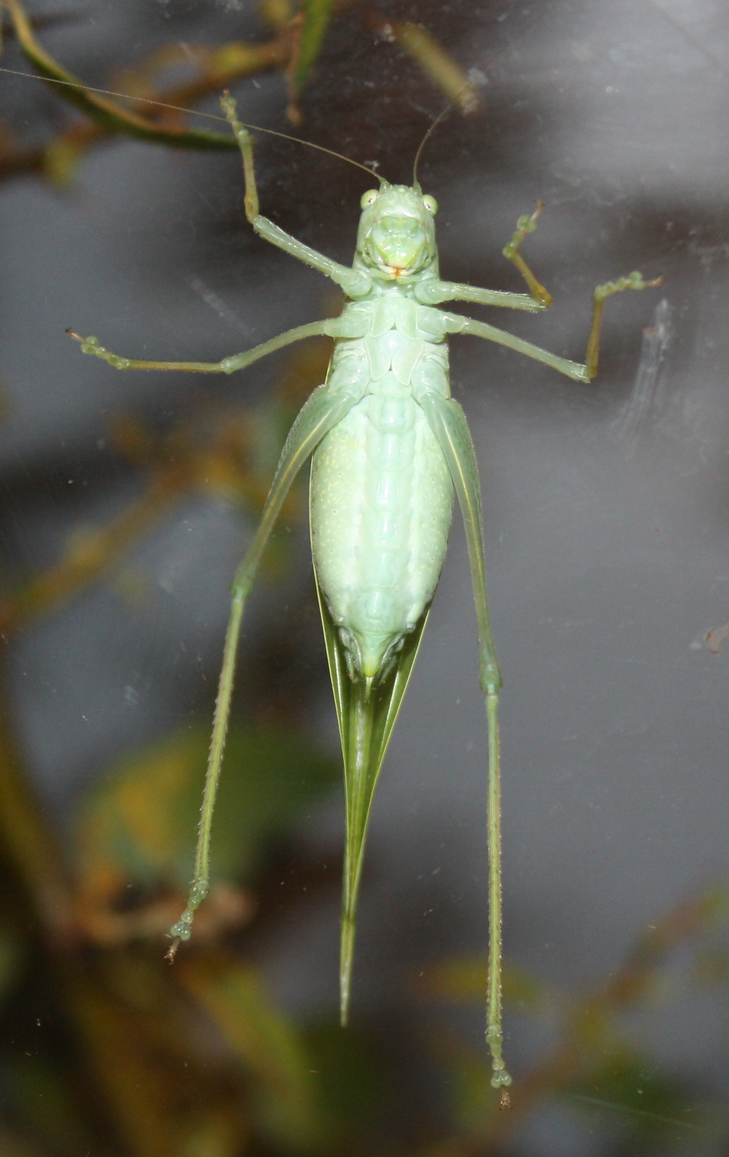 Green Leaf Katydid Microcentrum retinerve at Cincinnati Zoo